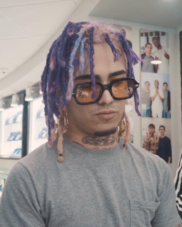 Lil Pump on an Icebox Diamonds & Watches YouTube video